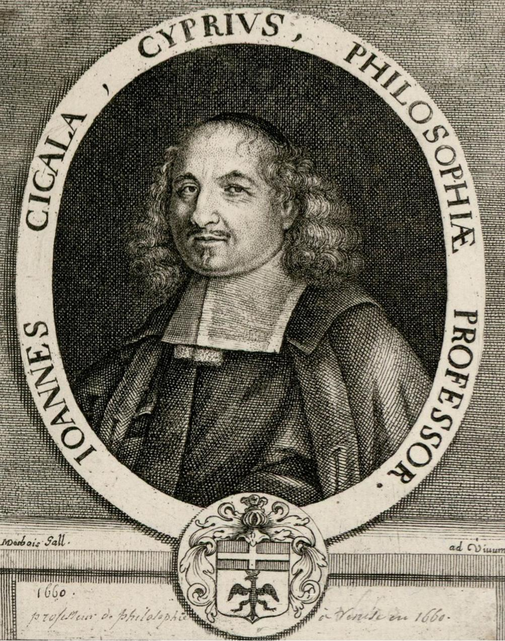 Ioannis Kigalas (Greek: Ιωάννης Κιγάλας), (Italian: Giovanni Cigala, Cicala), (Latin: Joannes Cigala; ca. 1622 – ca. 5 November 1687) was a Greek Cypriot scholar and professor of Philosophy and Logic who was largely active in Padova and Venice in the 17th century Italian Renaissance. Inscription: IOANNES CIGALA, CYPRIVS, PHYLOPSOPHIAE PROFESSOR